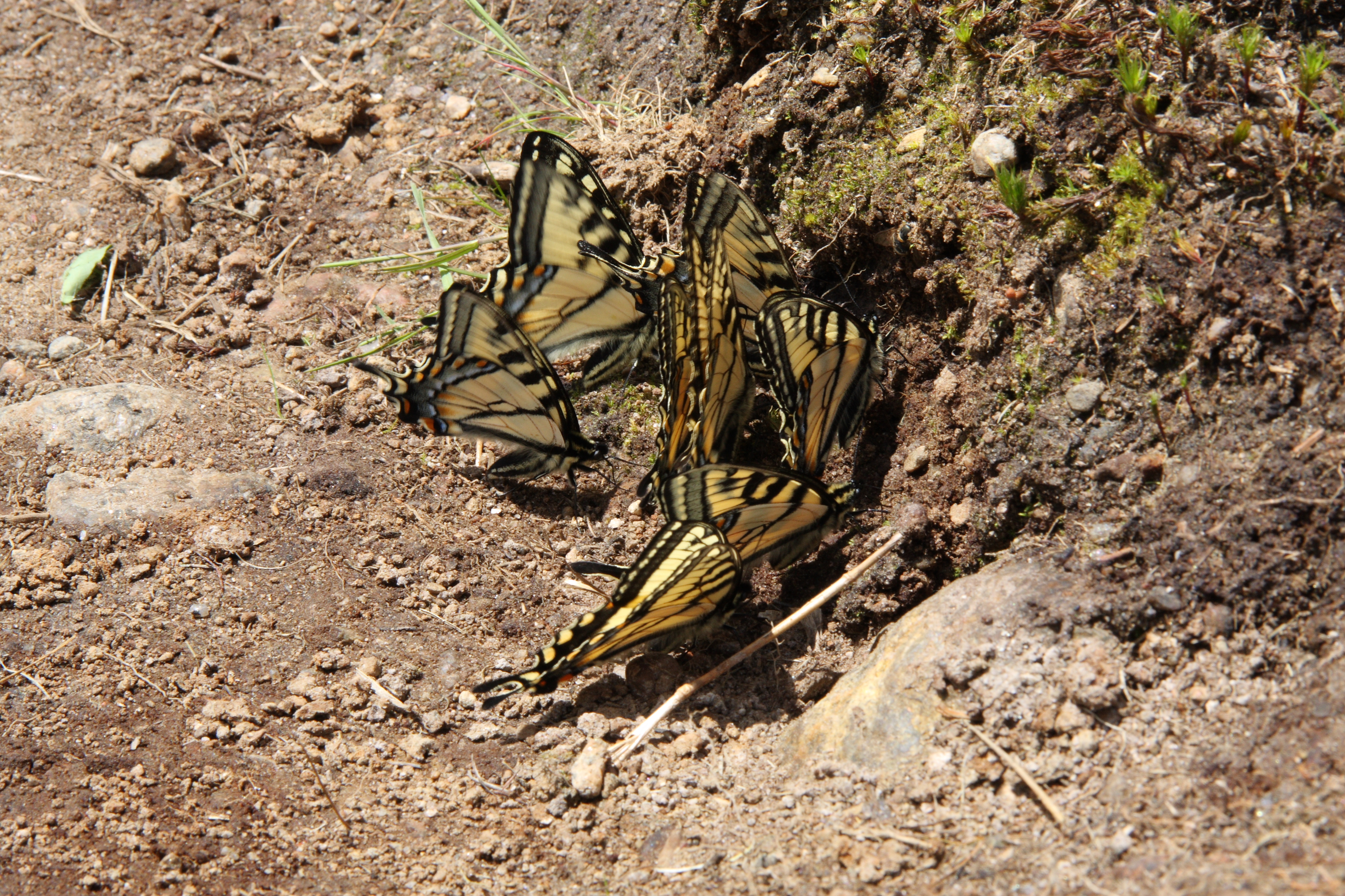 Gathering of Canadian Tiger Swallowtail (Papilio canadensis) on wet soil, Jacques-Cartier National Park, Quebec, Canada